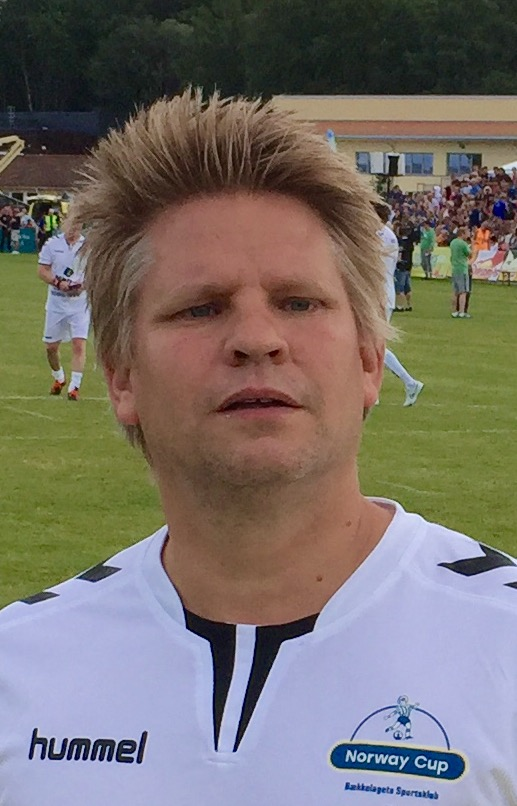 Norwegian commedian and TV-host Haavard Lilleheie